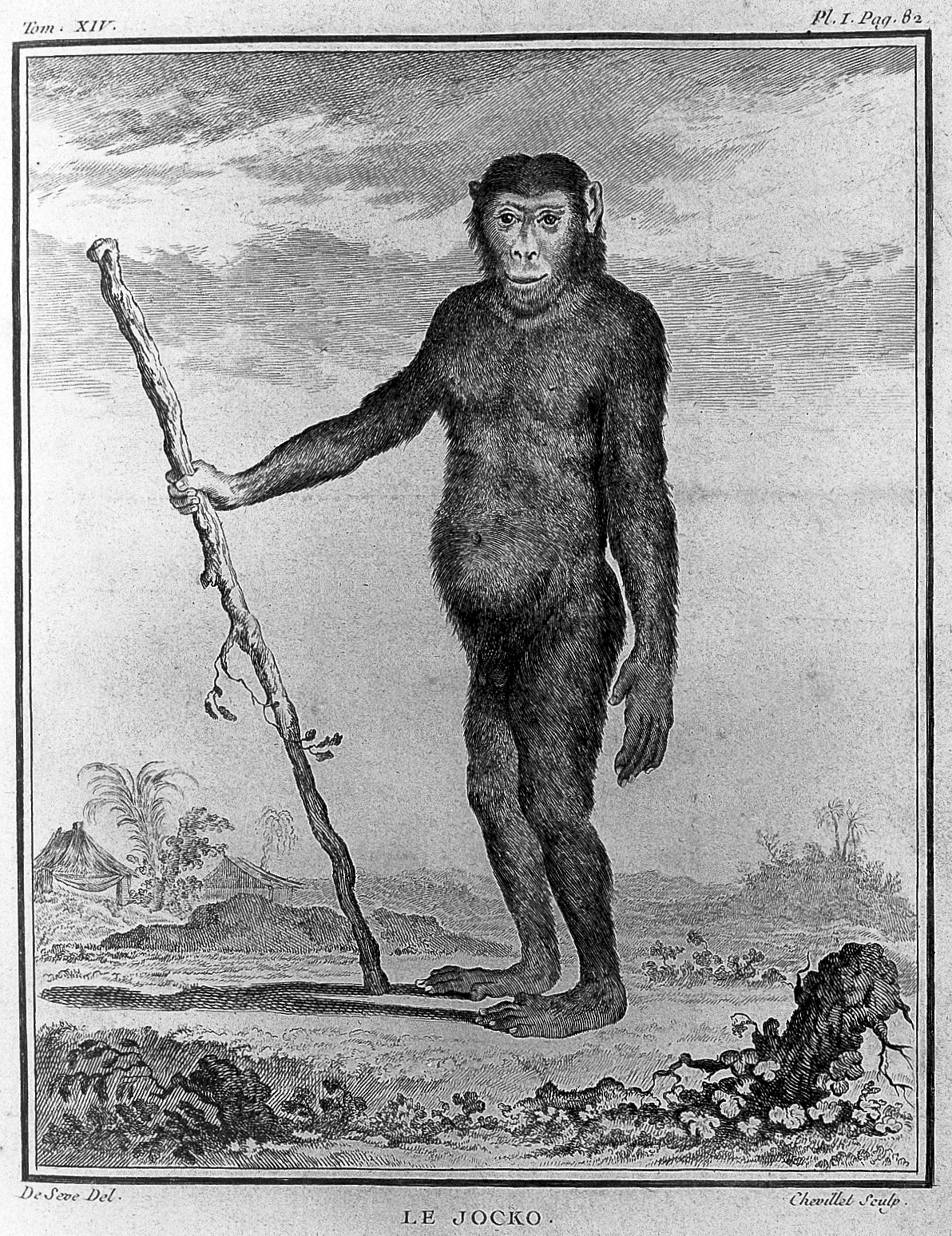 "Le jocko" Rare Books Keywords: gems; mineralogy; Georges Louis Leclerc, Comte de Buffon